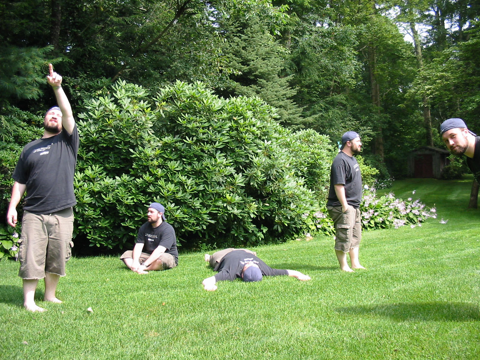 clones of one man on green field